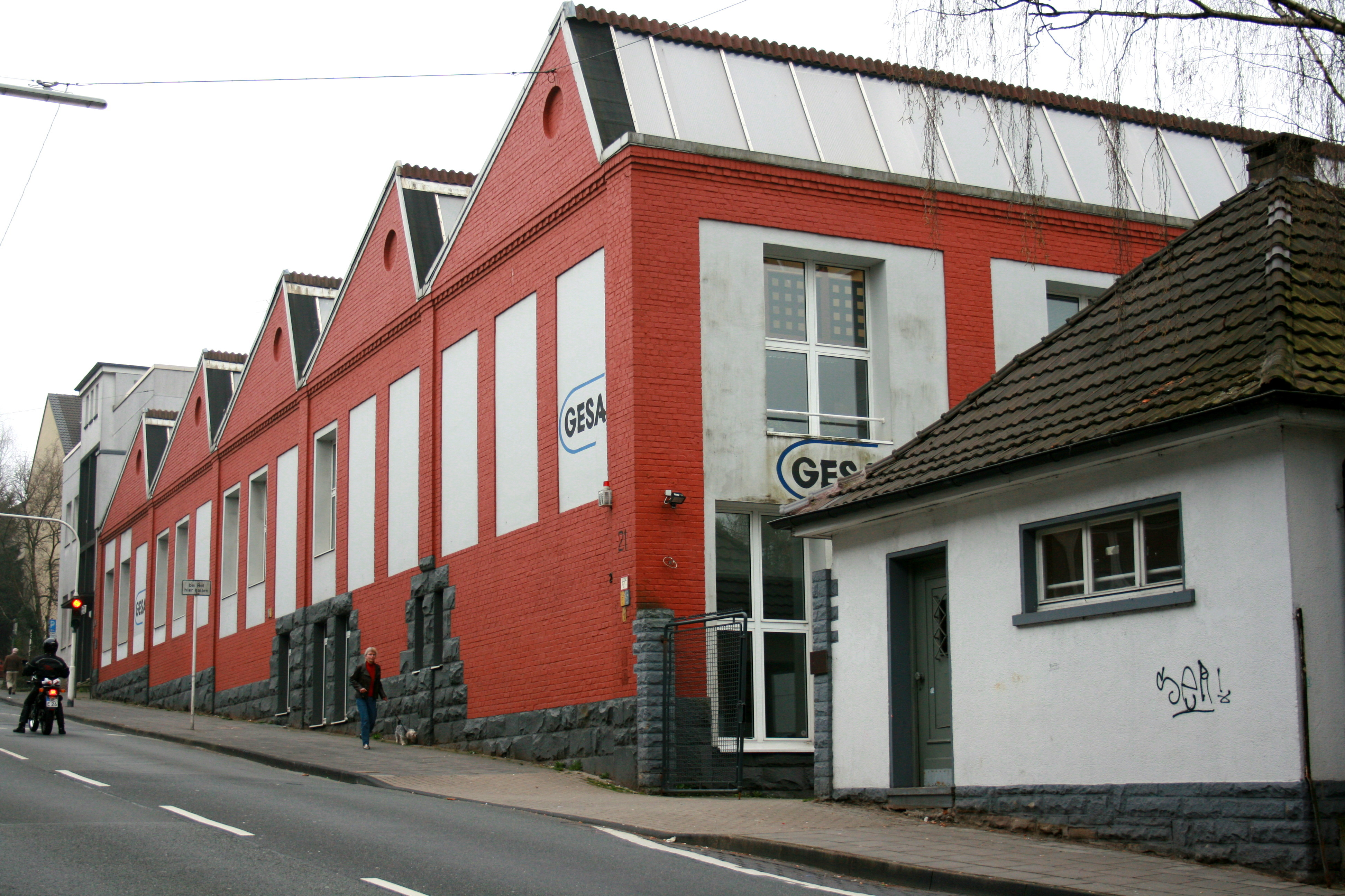 Zipper factory RiRi in Wuppertal, first factory to produce zippers in series